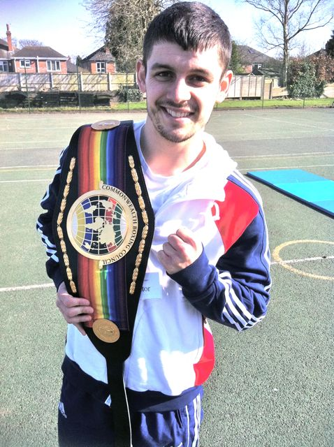 Image of Liverpool boxer Stephen Smith